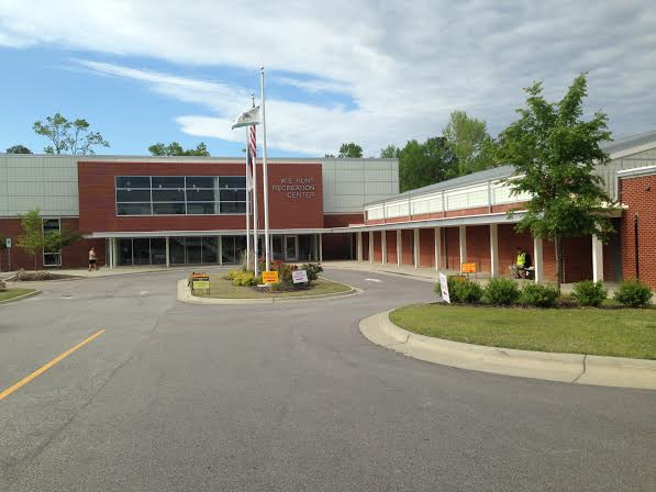 W.E. Hunt Recreation Center located in Holly Springs, NC.